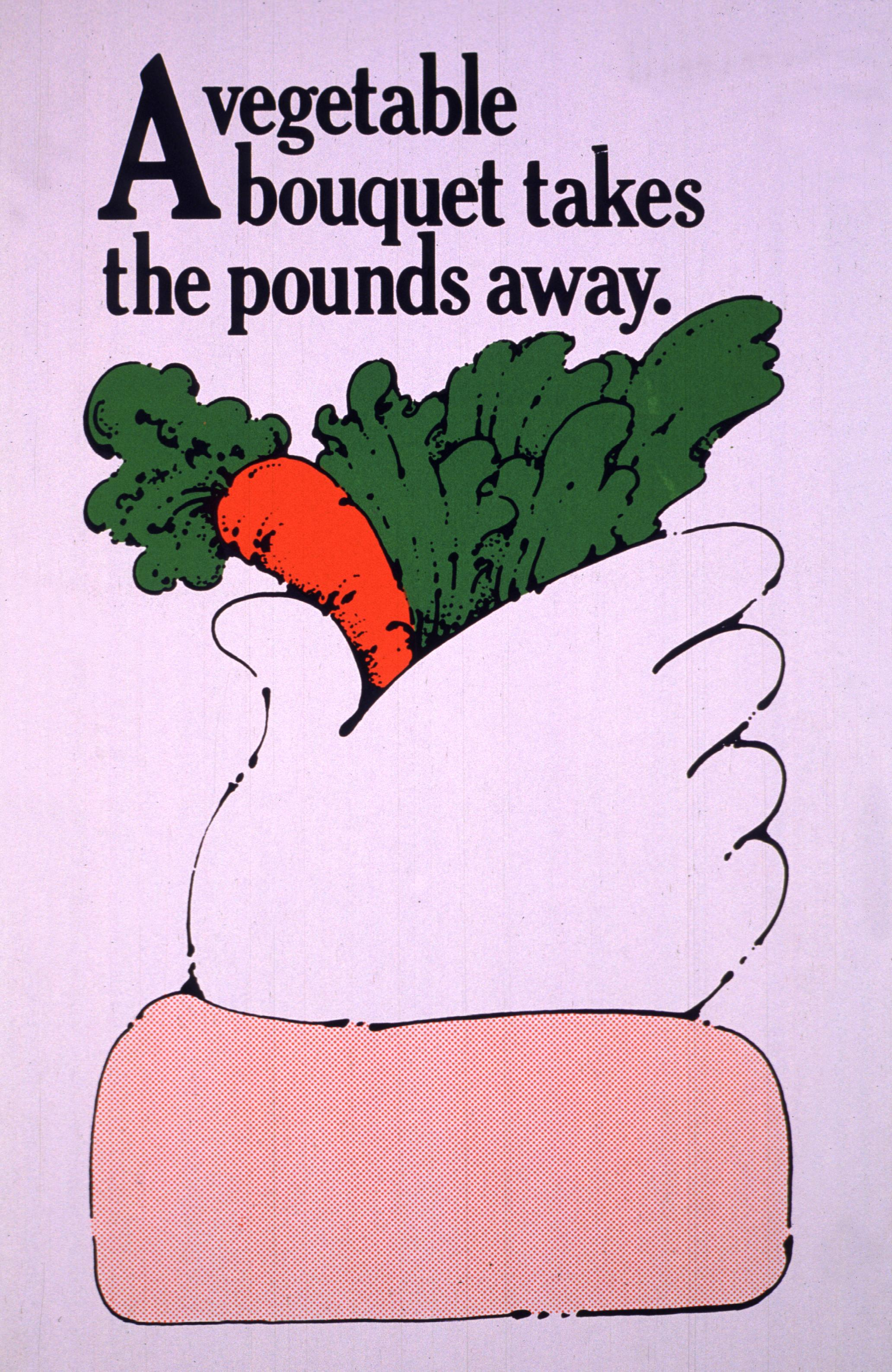 Contributor(s): National Institutes of Health (U.S.). Medical Arts and Photography Branch. Publication: [Bethesda, Md. : Medical Arts and Photography Branch, National Institutes of Health, 19--?] Language(s): English Format: Still image Subject(s): Vegetables Diet, Reducing Genre(s): Posters Abstract: The poster shows the drawing of a hand grasping a carrot and leafy greens. Extent: 1 photomechanical print (poster) : 56 x 36 cm. Technique: color NLM Unique ID: 101454224 NLM Image ID: C00849 Permanent Link